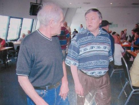 two grandmasters are greeting each other